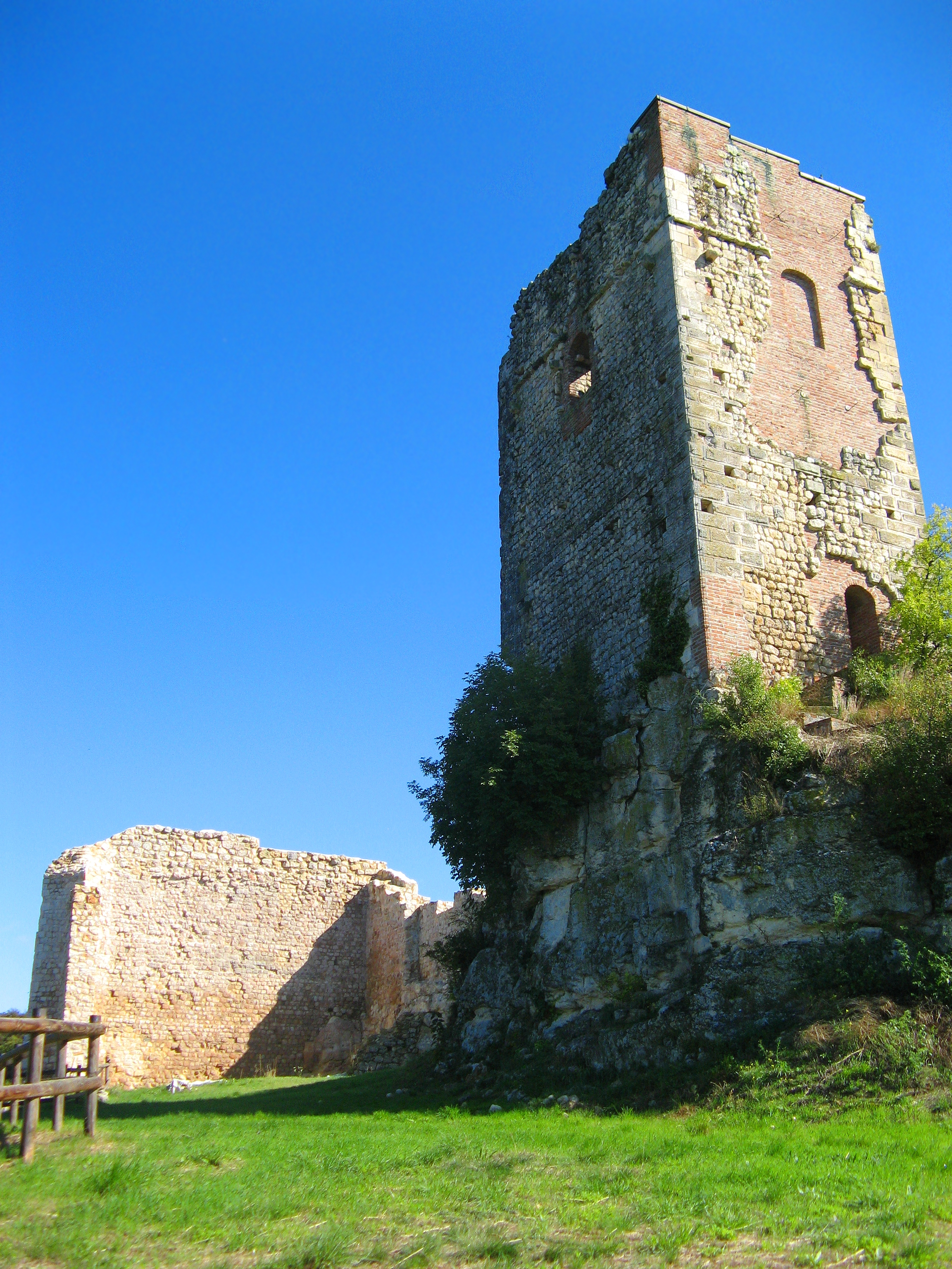 Tower and ancient walls of "Rocca dei Vescovi", Brendola (Italy).